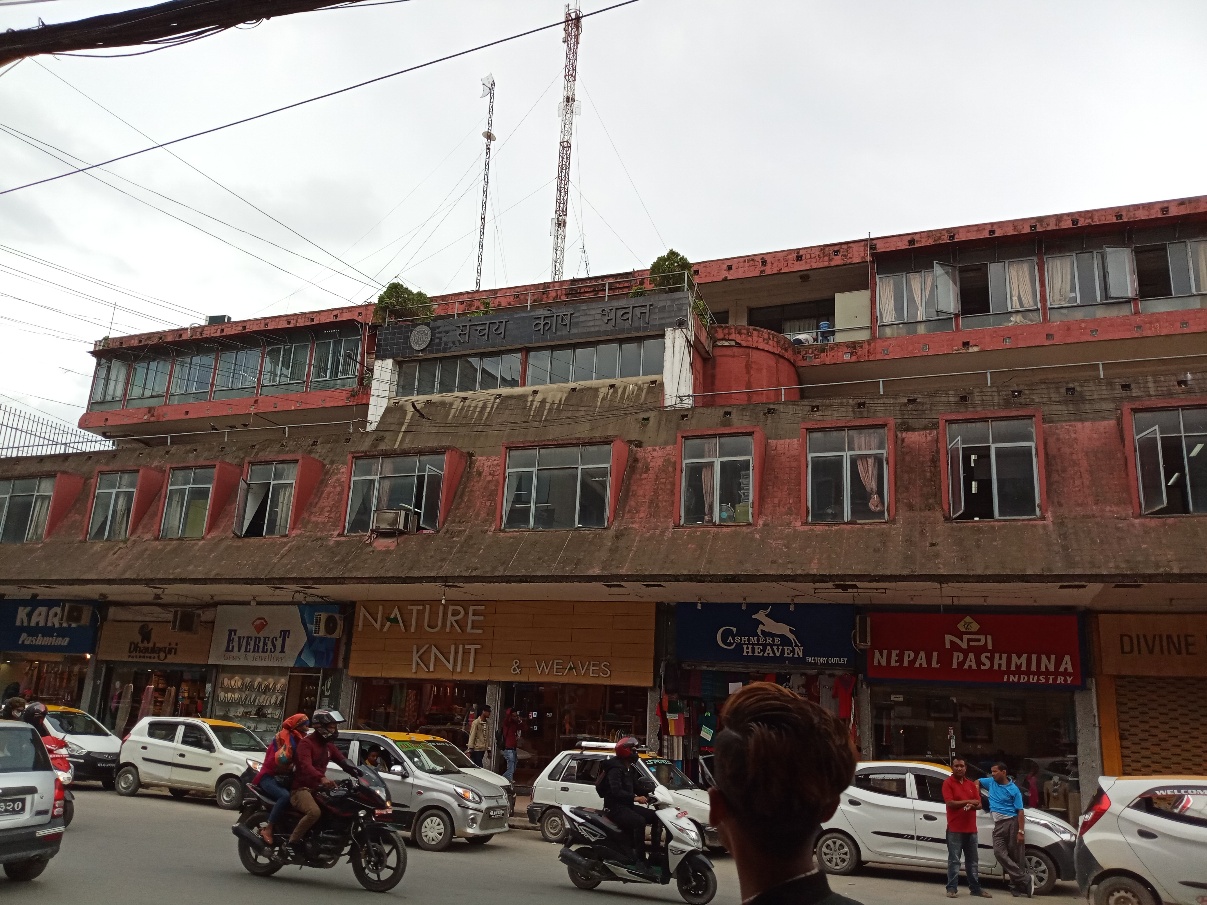 नेपाली: Employee Providient Fund Building कर्मचारी सञ्चयकोष भवन